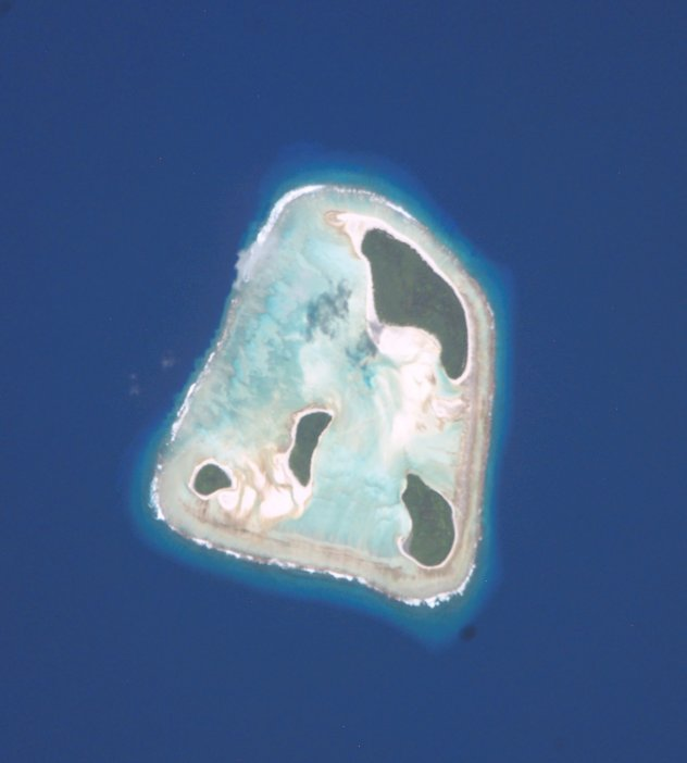 NASA astronaut image of Îles Maria (Austral Islands, French Polynesia) in the Pacific Ocean